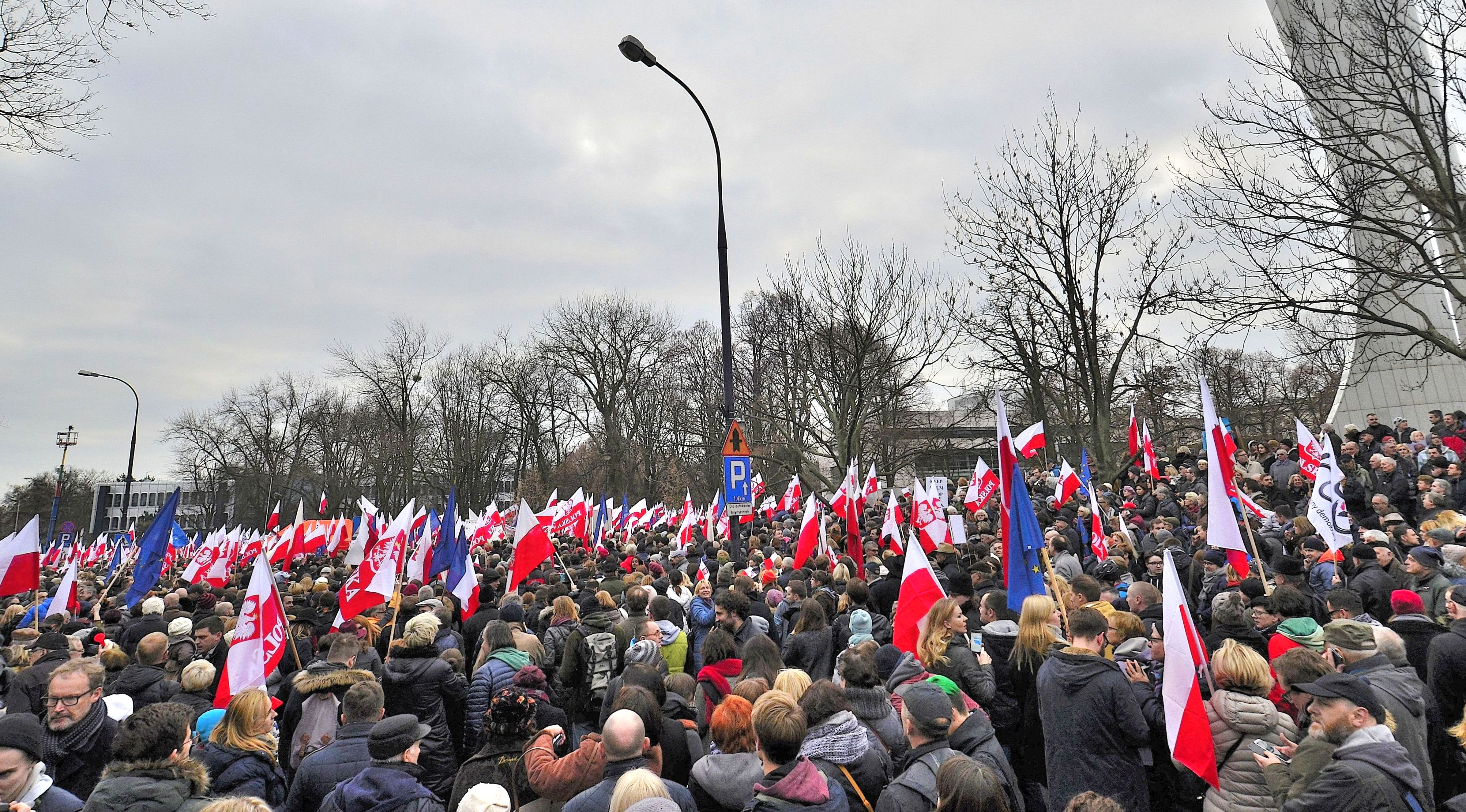 A demonstration organised by the Committee for the Defence of Democracy (KOD) in front of the Sejm in Warsaw